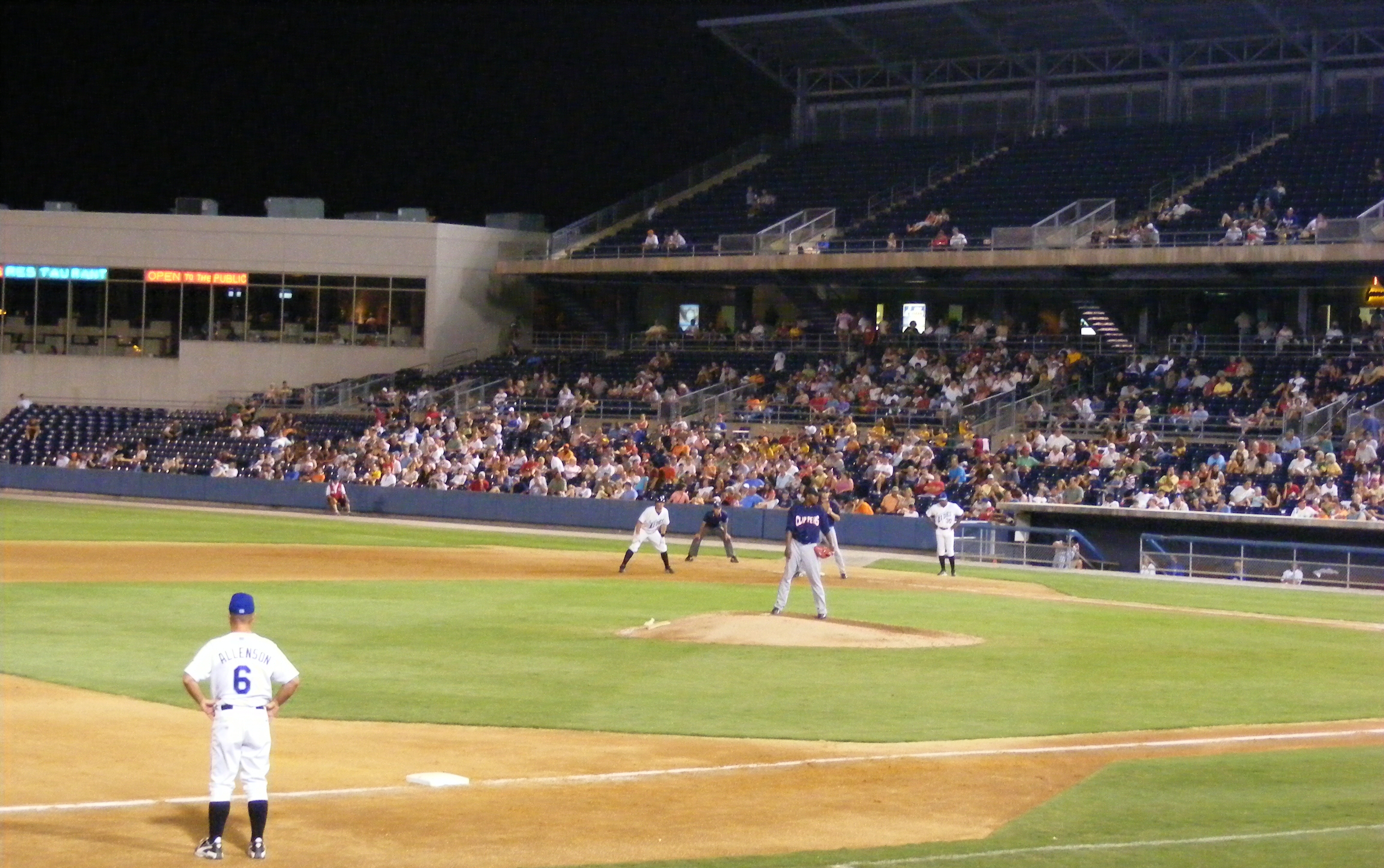 The Norfolk Tides (en) take on the Columbus Clippers at Harbor Park.